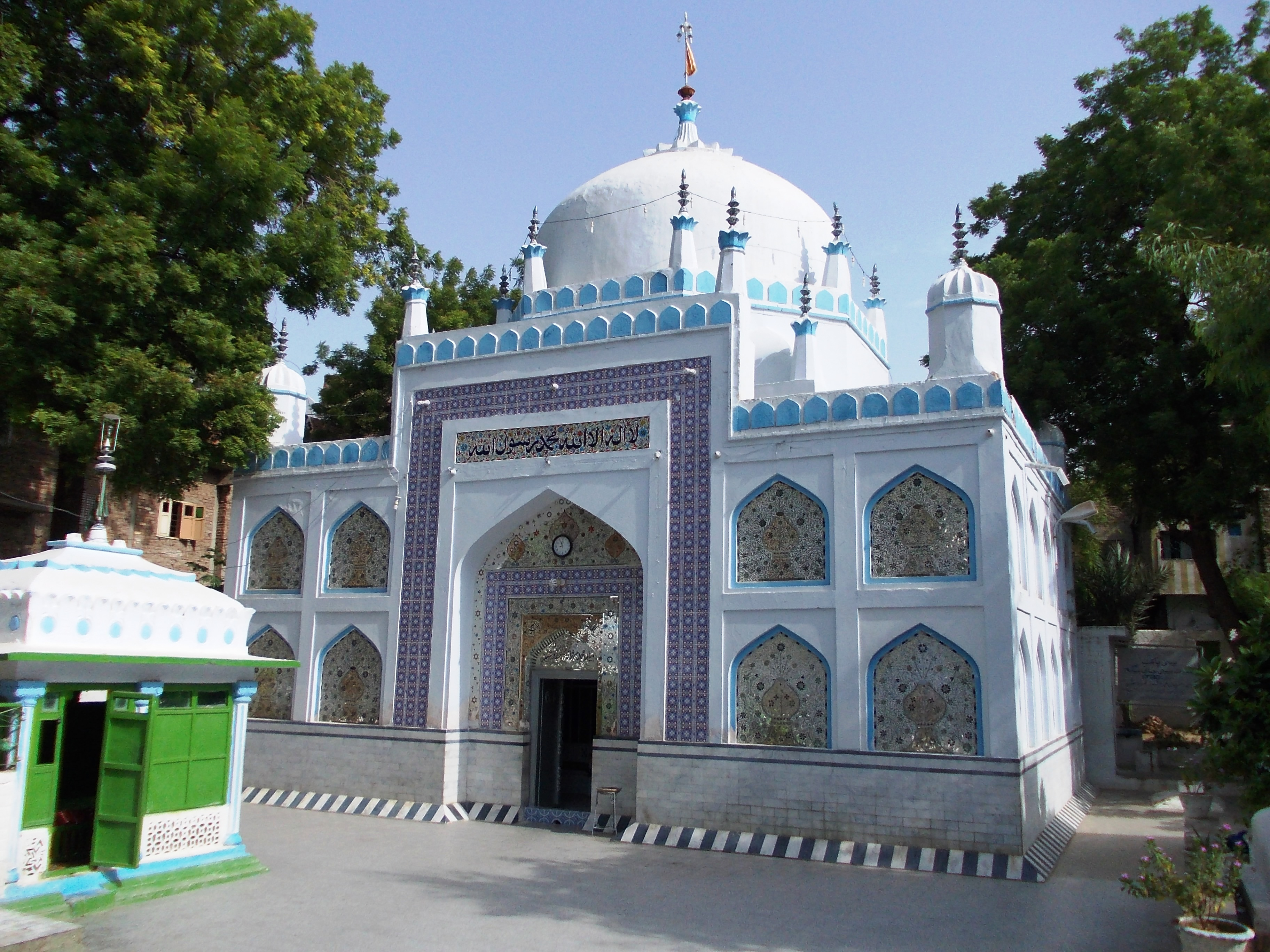 Tomb of Sarfaraz Khan Kalhora This is a photo of a monument in Pakistan identified as the SD-25